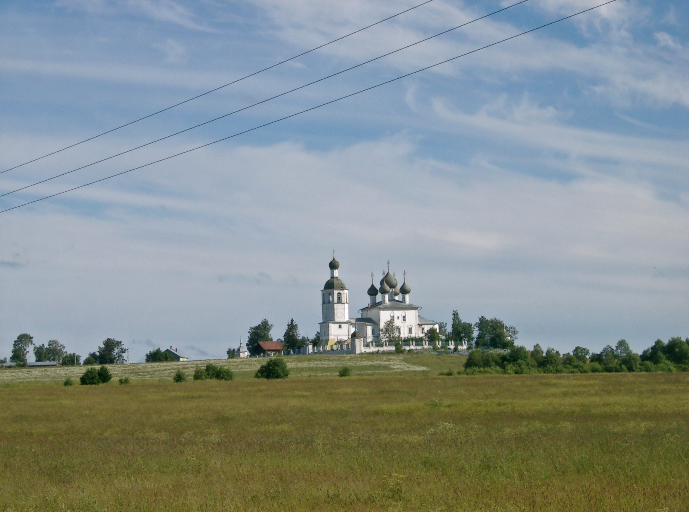 Ilyinsky Pogost, next to Kadnikov, Vologda Oblast, Russia